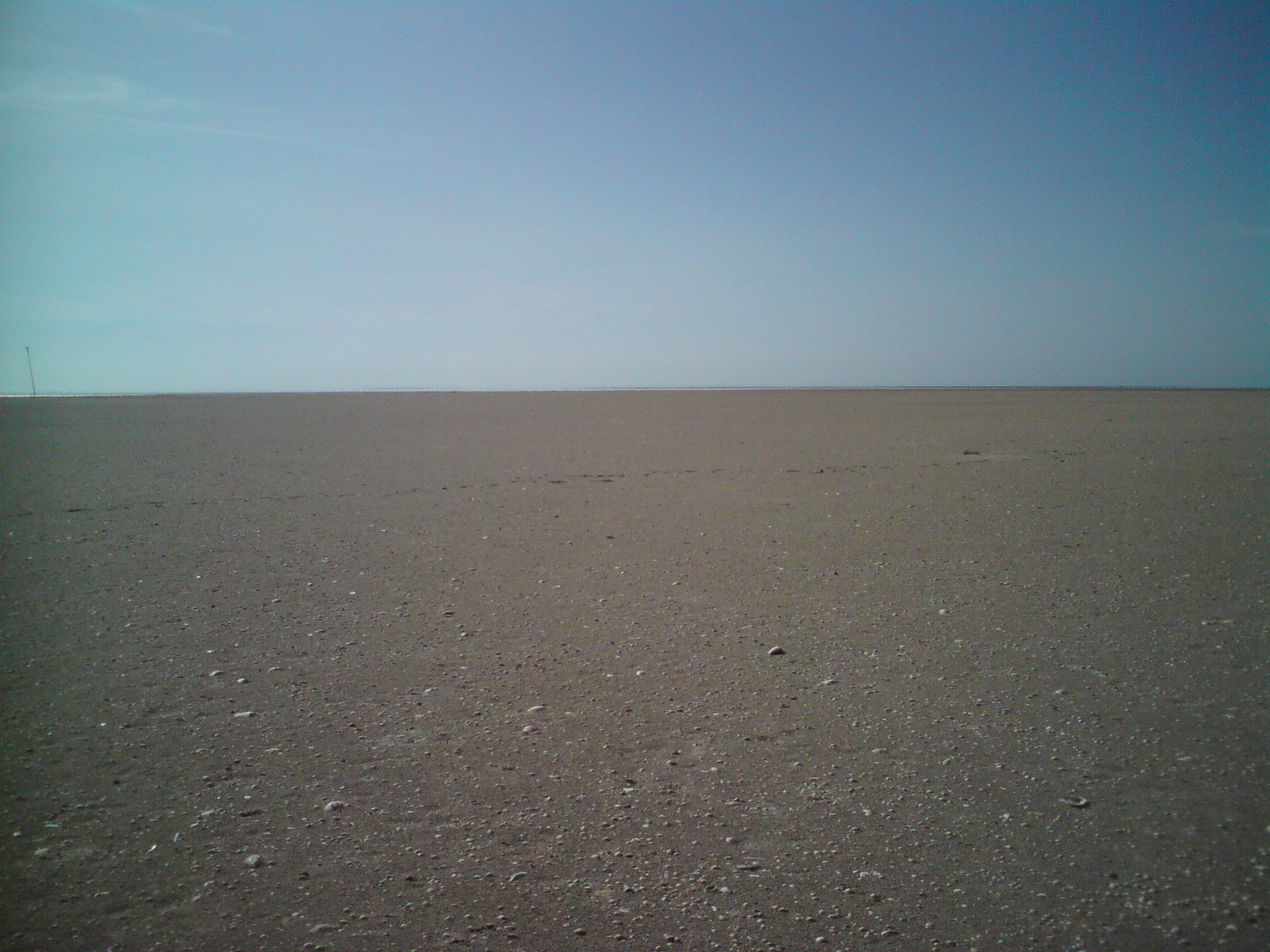 Island or sanbar named Blauort of the German coast near Büsum